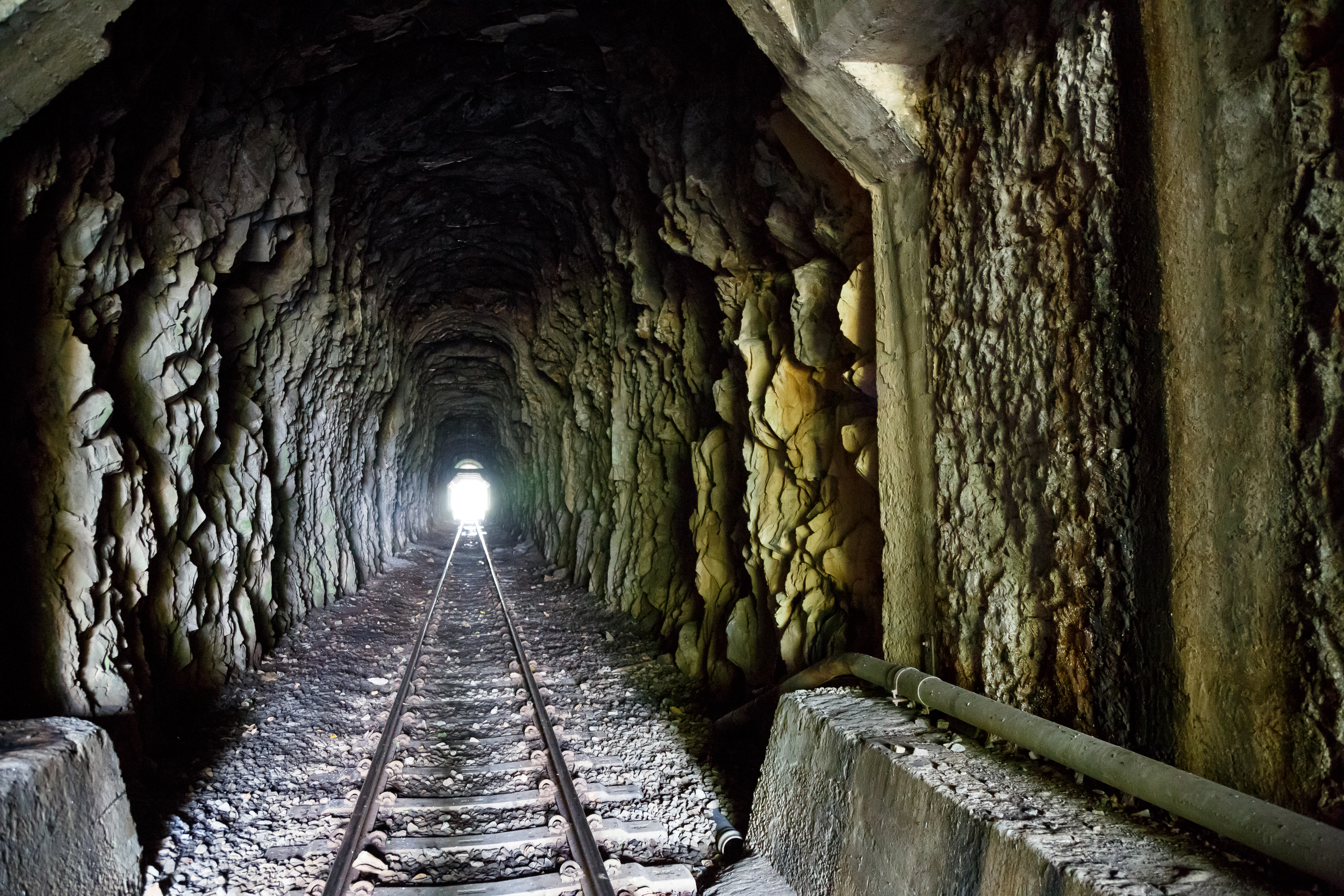 Pengalat Besar, Sabah: Constructive details of Pengalat Railway Tunnel between Kawang and Papar. View from Papar side.